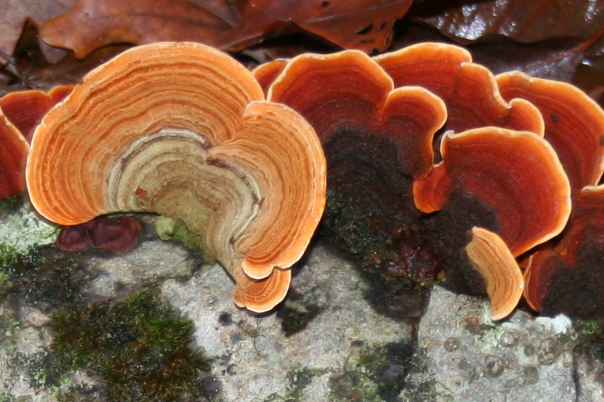 Stereum insignitum. Longuenée forest, Maine-et-Loire, France.